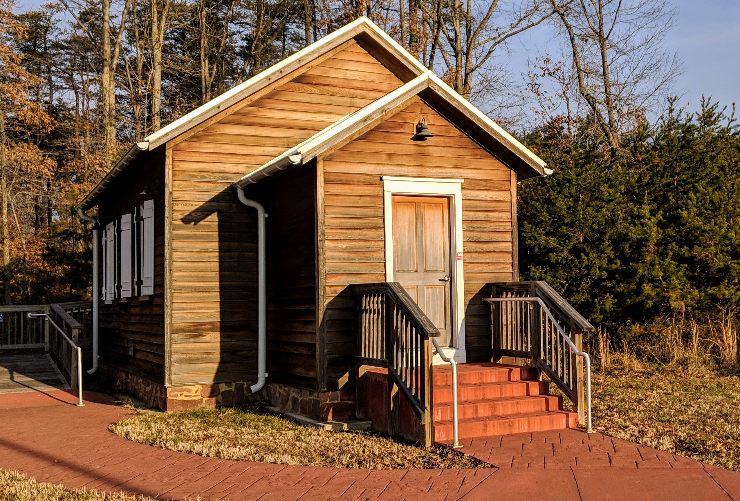 one room schoolhouse on the grounds of liberty middle school